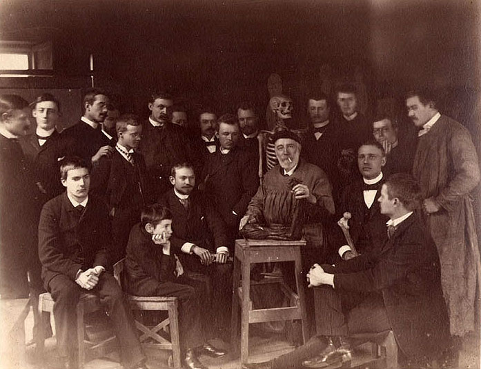 Anatomy lesson with Carl Curman (1833-1913). Art academy, Stockholm, Sweden.